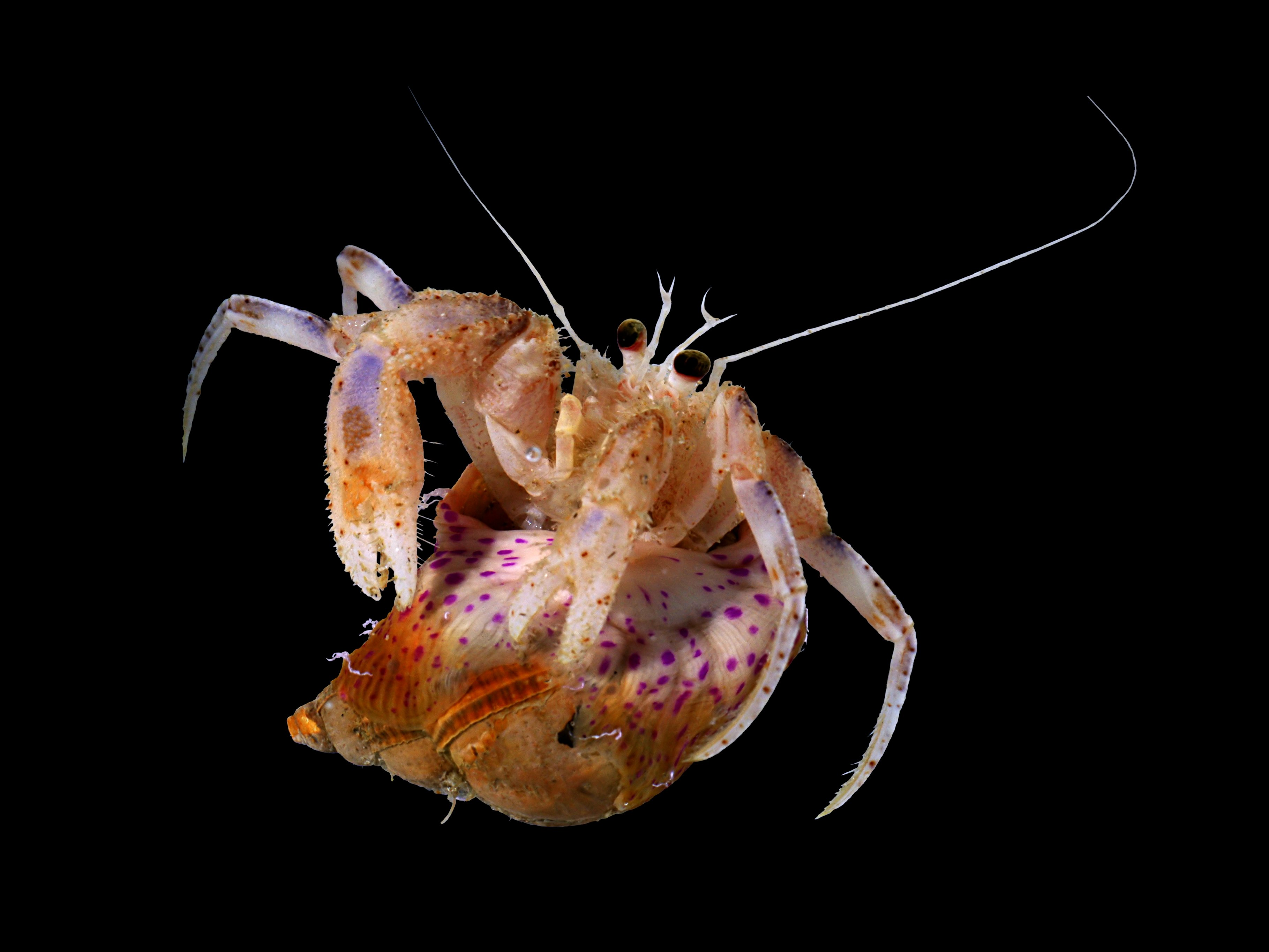 Hermit crab living symbiotically with a sea anemone, from the Belgian part of the North Sea 2010. Lab image.Length = ~30 mm.